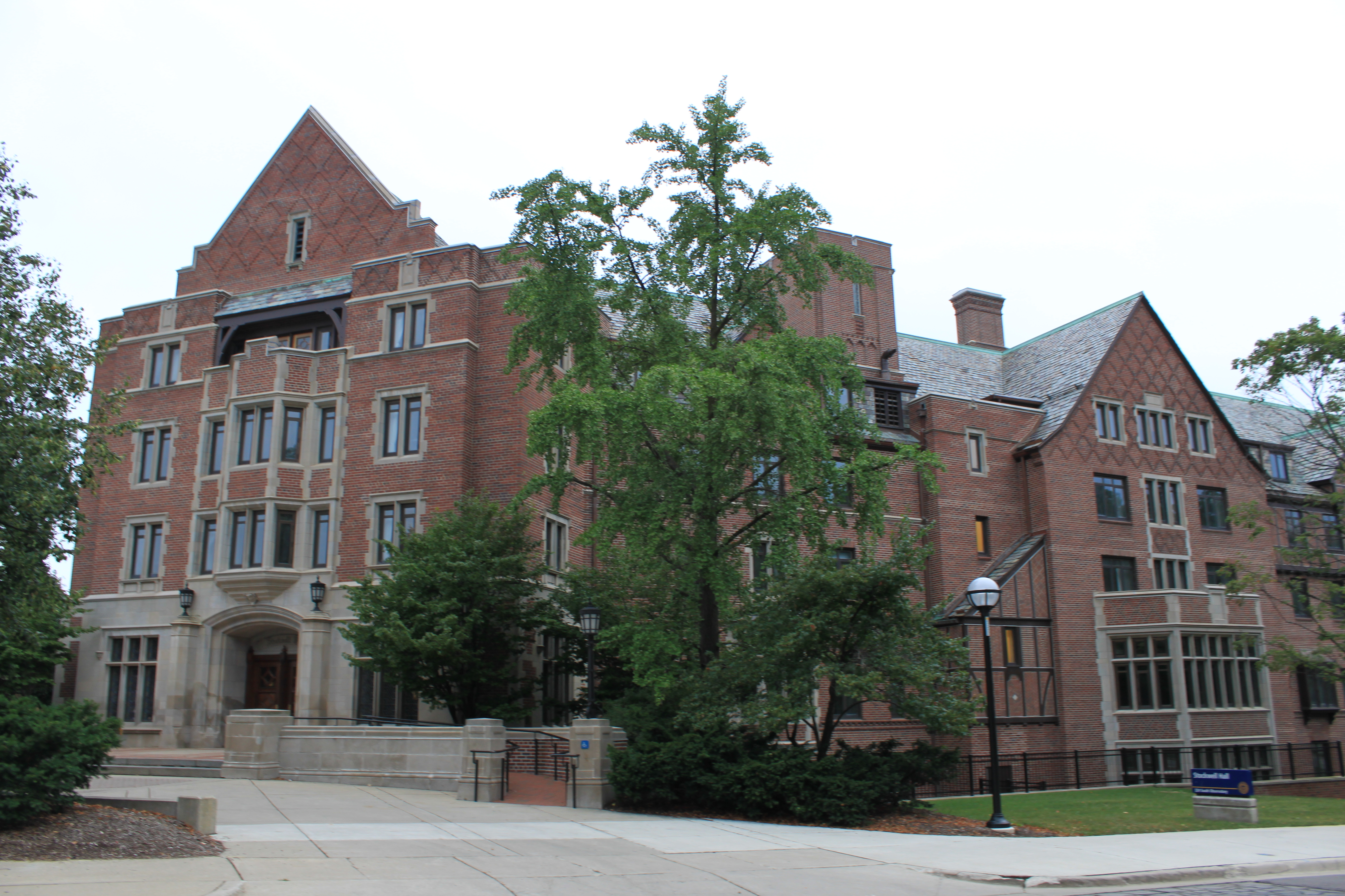 Stockwell Residence Hall, view from Observatory Street, University of Michigan, 324 Observatory St.